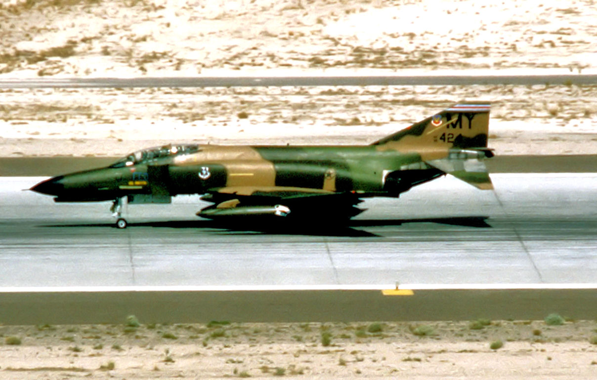 A U.S. Air Force McDonnell Douglas F-4E-39-MC Phantom II (s/n 68-0424) from the 69th Tactical Fighter Squadron, 347th Tactical Fighter Wing, lands at Nellis Air Force Base, Nevada (USA), during exercise "Gunsmoke '81" on 22 September 1981. The F-4E 68-0424 was sold to Greece on 1991.